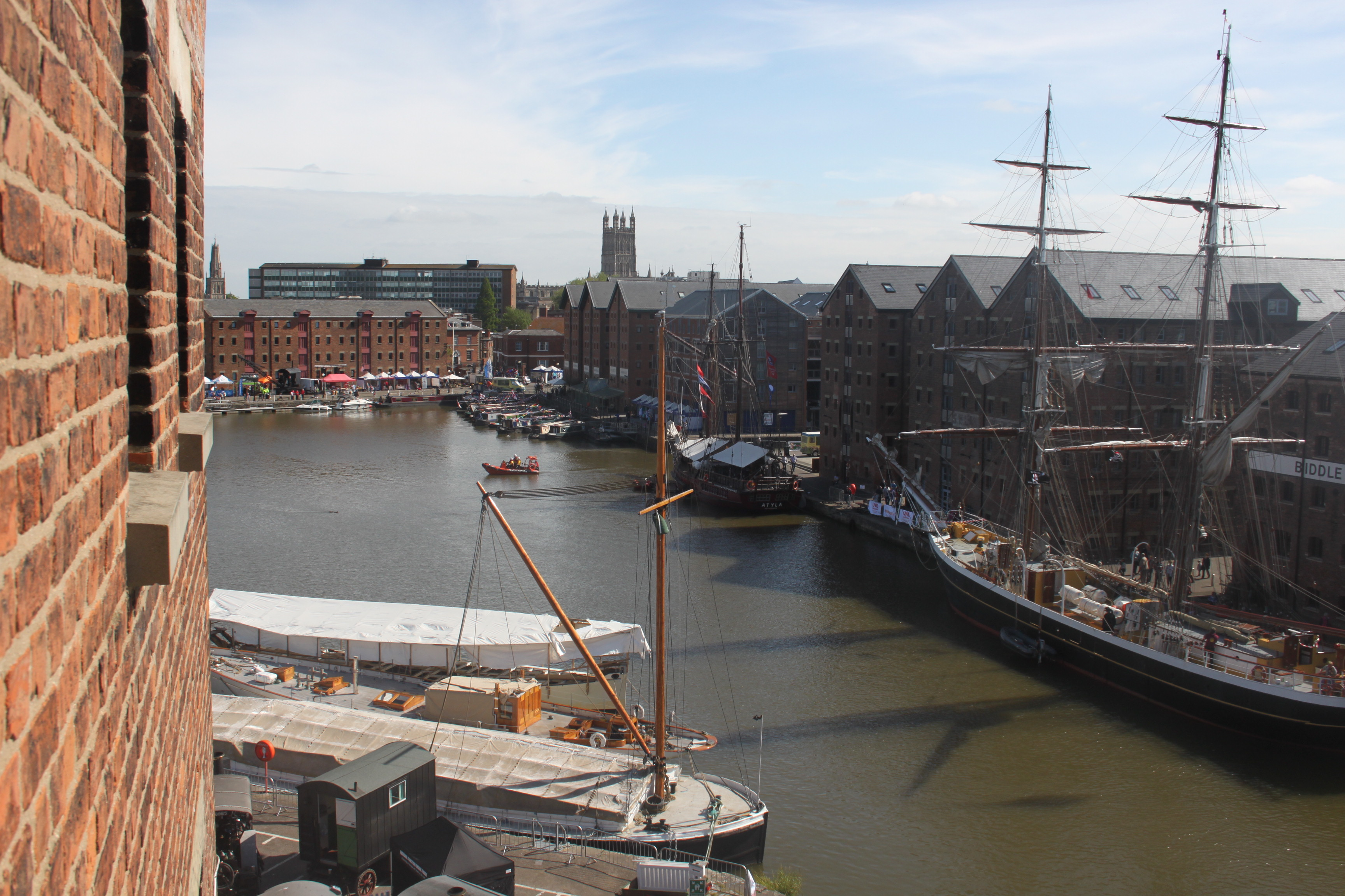 The tall ship Atyle in Gloucester Docks